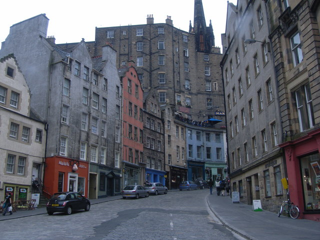 103-87 West Bow (on left hand side), Edinburgh